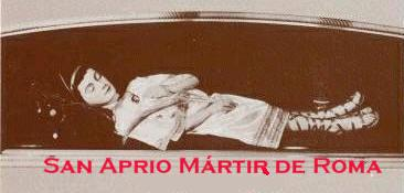 Saint Aprio